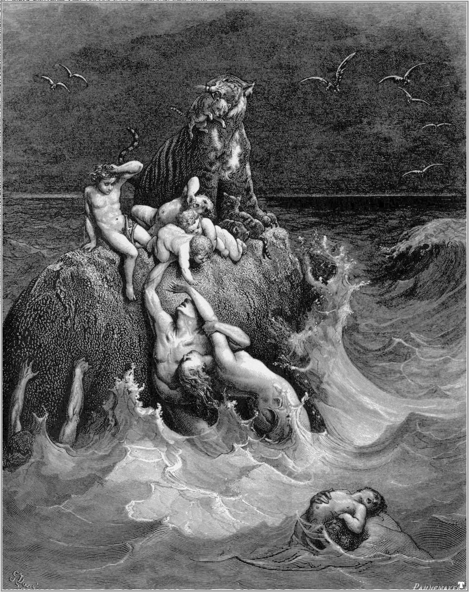 human figures struggling out of a stormy sea onto a sole rock occupied by a tiger and her cubs.